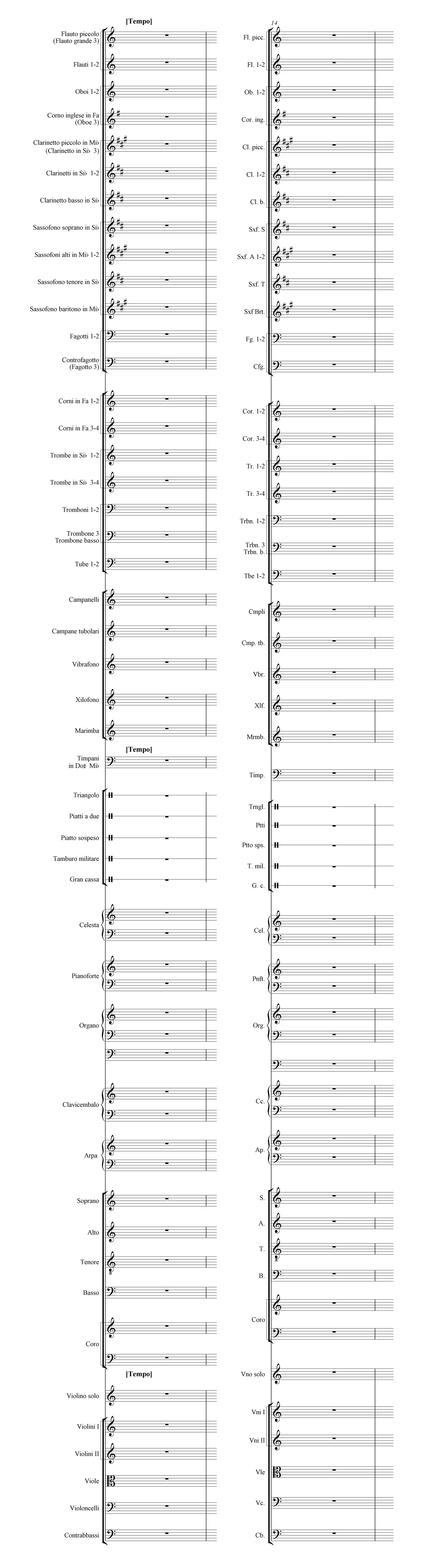 Huge Symphonic Orchestral Score